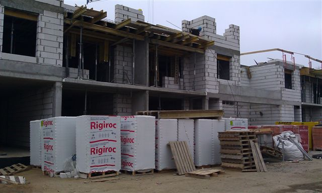 Use of gypsum blocks in multihousing projects.